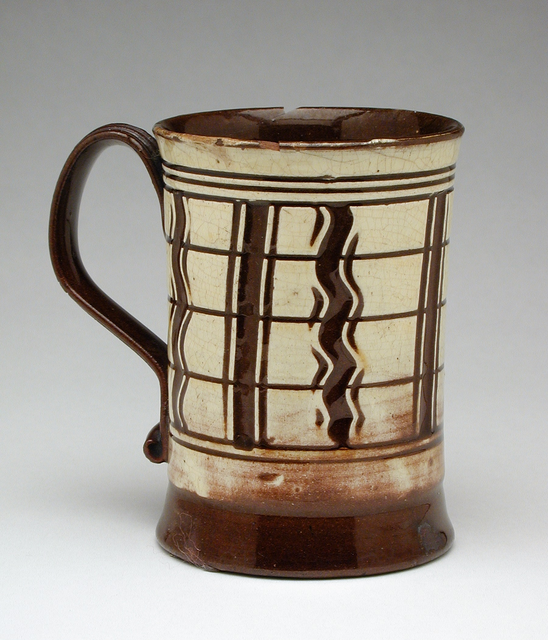 England, circa 1740 Furnishings; Serviceware Earthenware (slipware) Decorative Arts Council Fund (M.89.124) Decorative Arts and Design